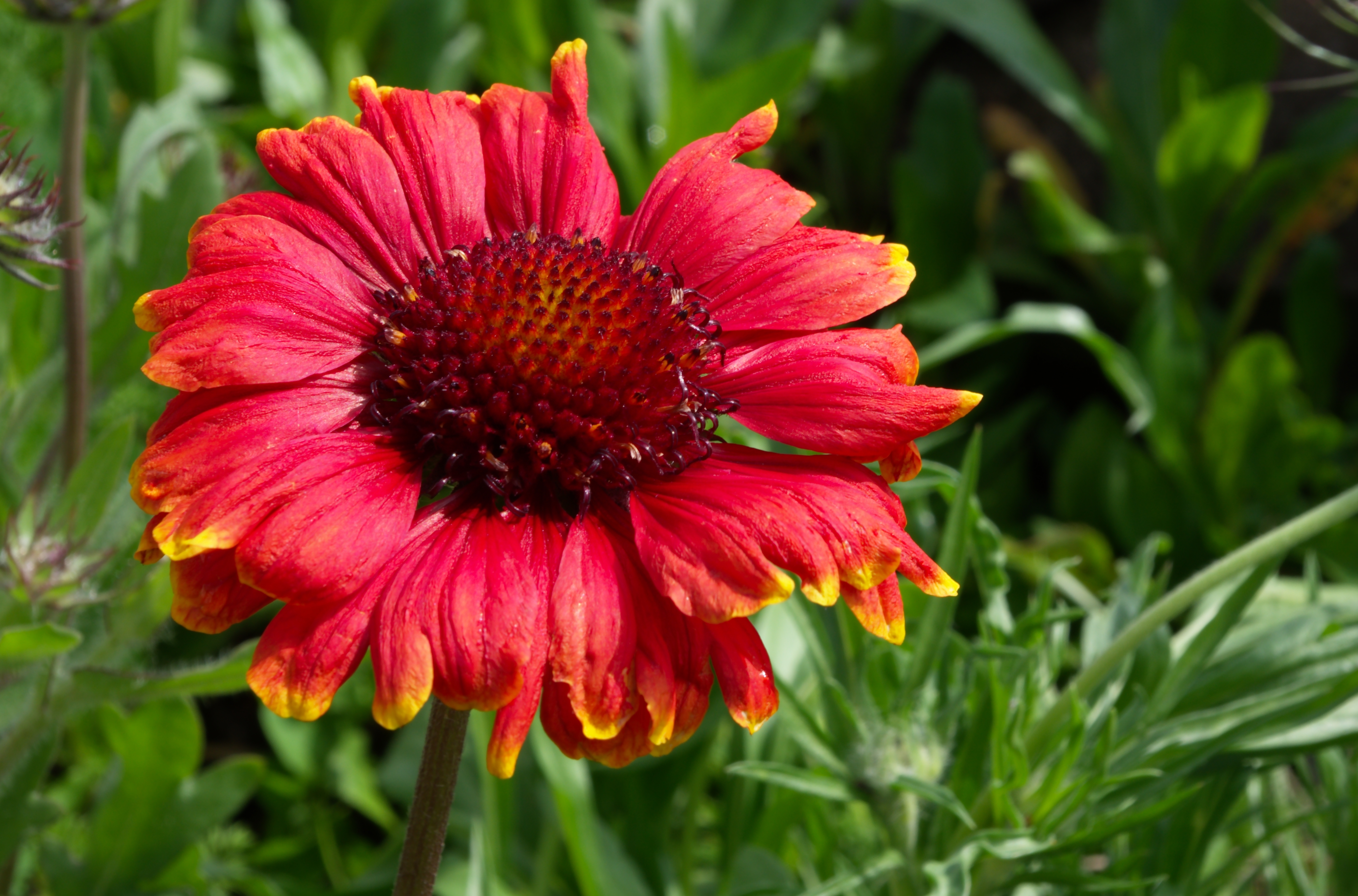 Gaillardia pulchella (Firewheel) in a garden. Charente, France.